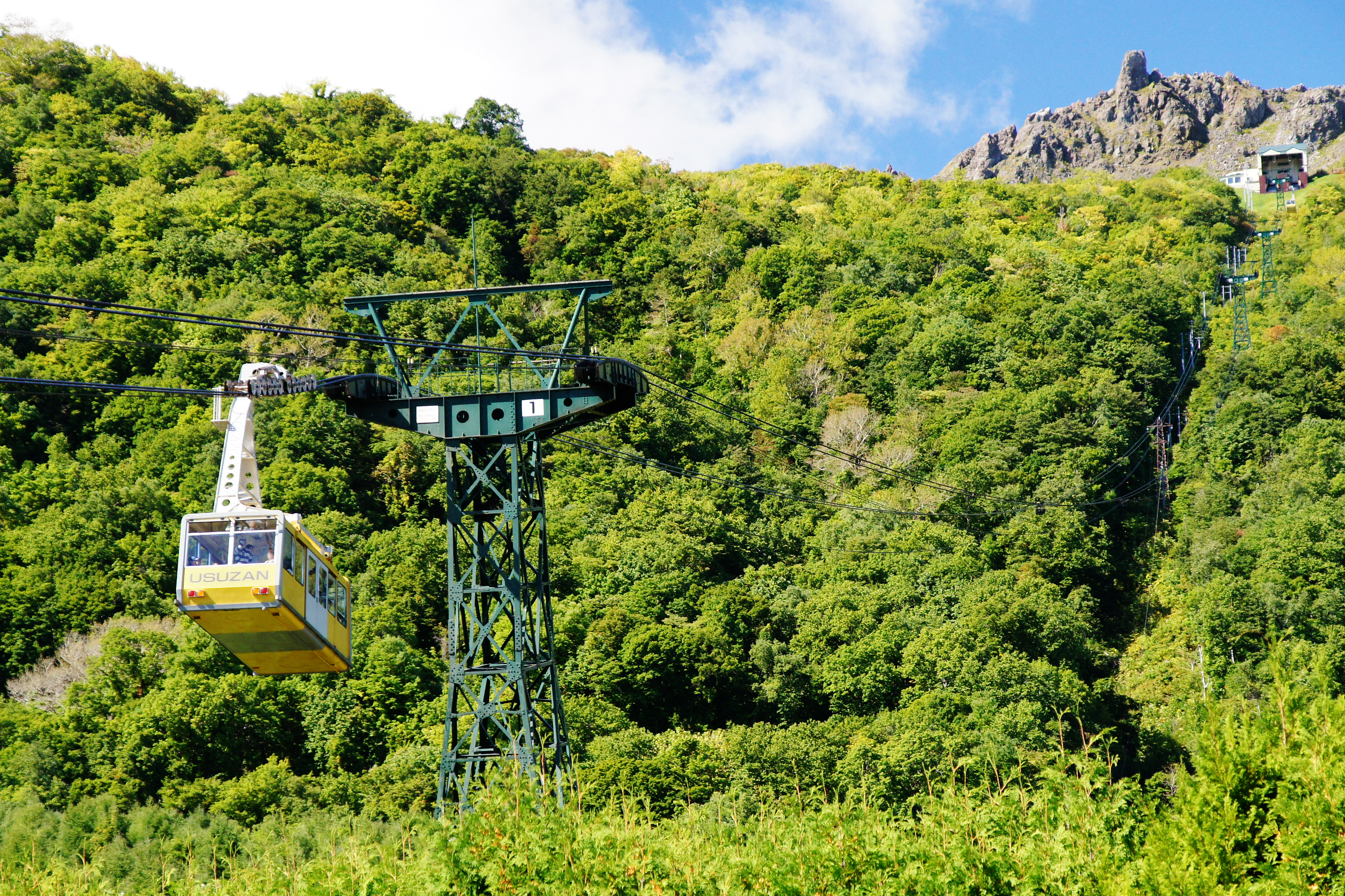 Usuzan Ropeway at Sobetsu, Hokkaido prefecture, Japan.